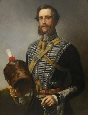 Portrait of Sir Henry St John-Mildmay, 5th Baronet (1810–1902), British Army officer.